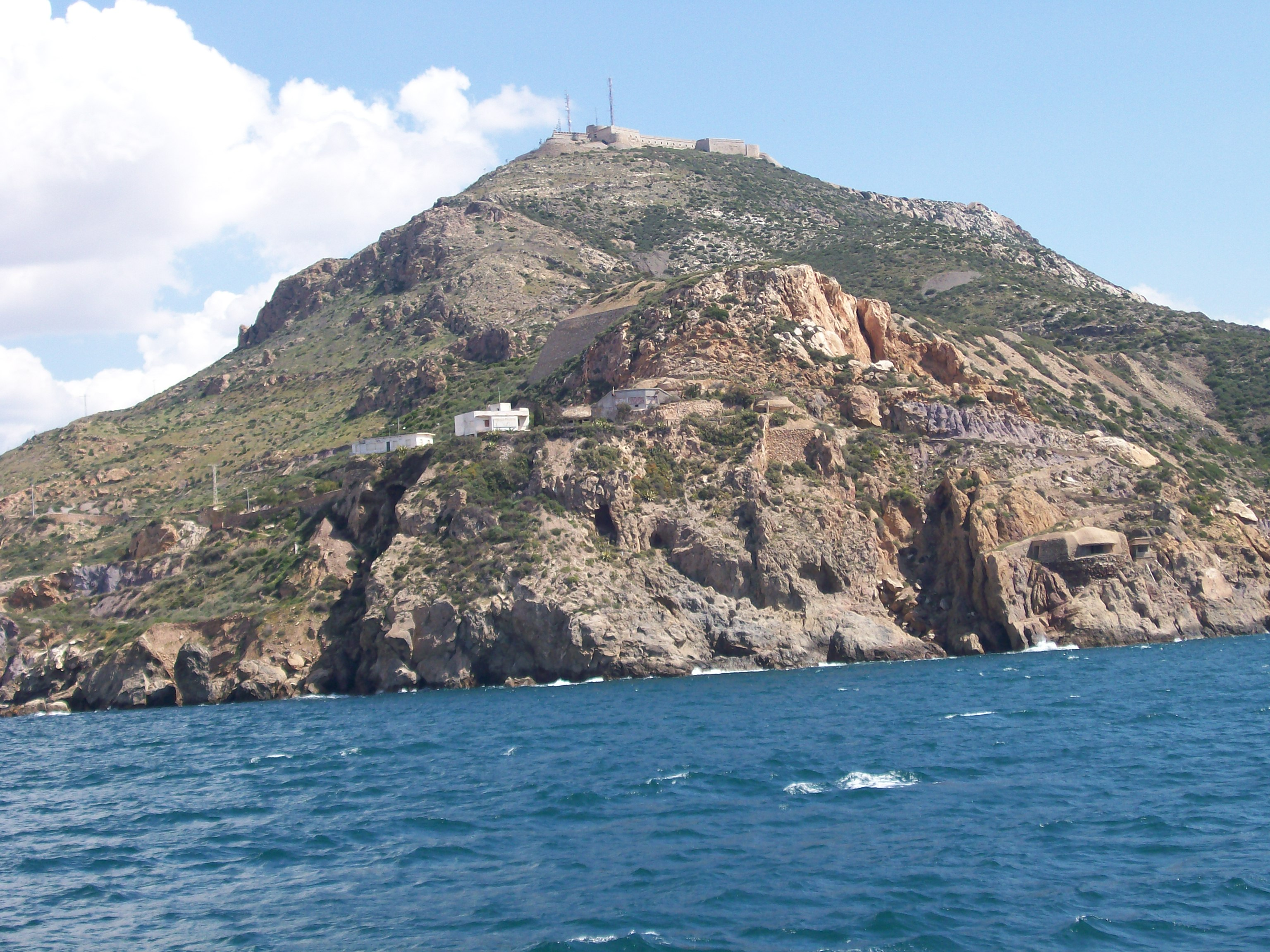 San Julian castle in Cartagena, Spain